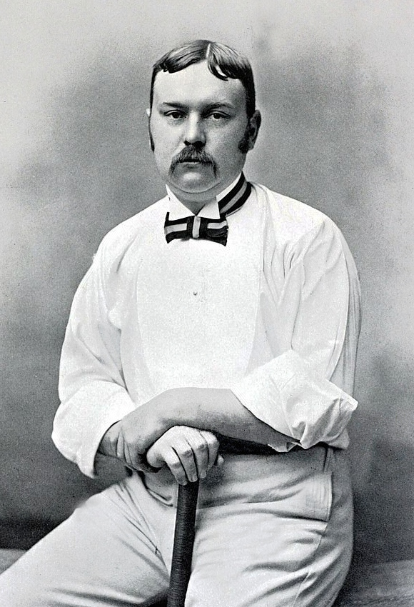 Sport, Cricket, Circa 1895, James 'Jimmy' Cranston, Gloucestershire (1876-1899) and England (1890)